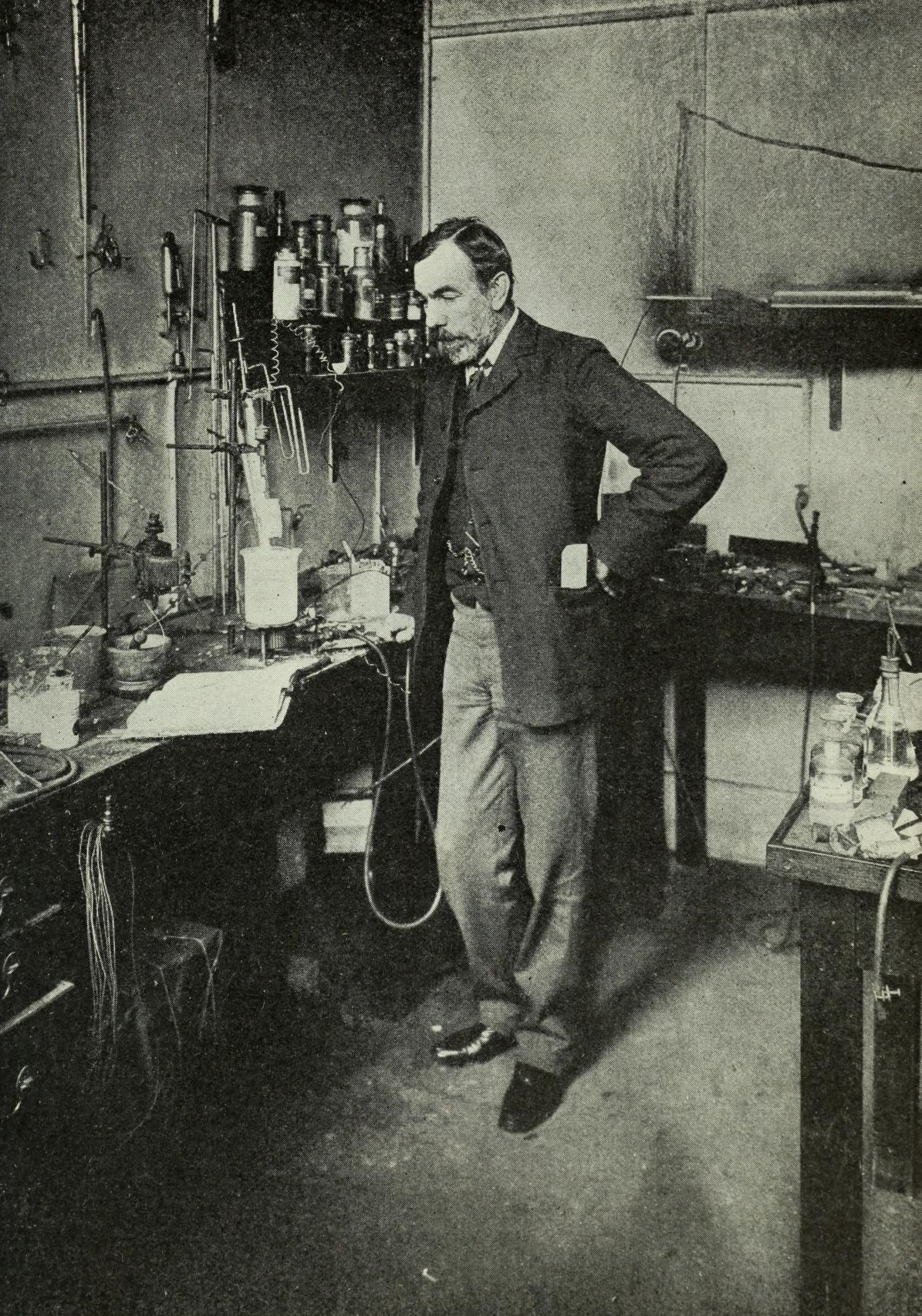 William Ramsay